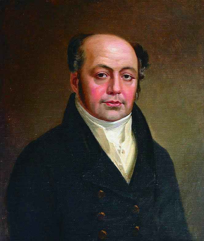 Воейков, Алексей Васильевич